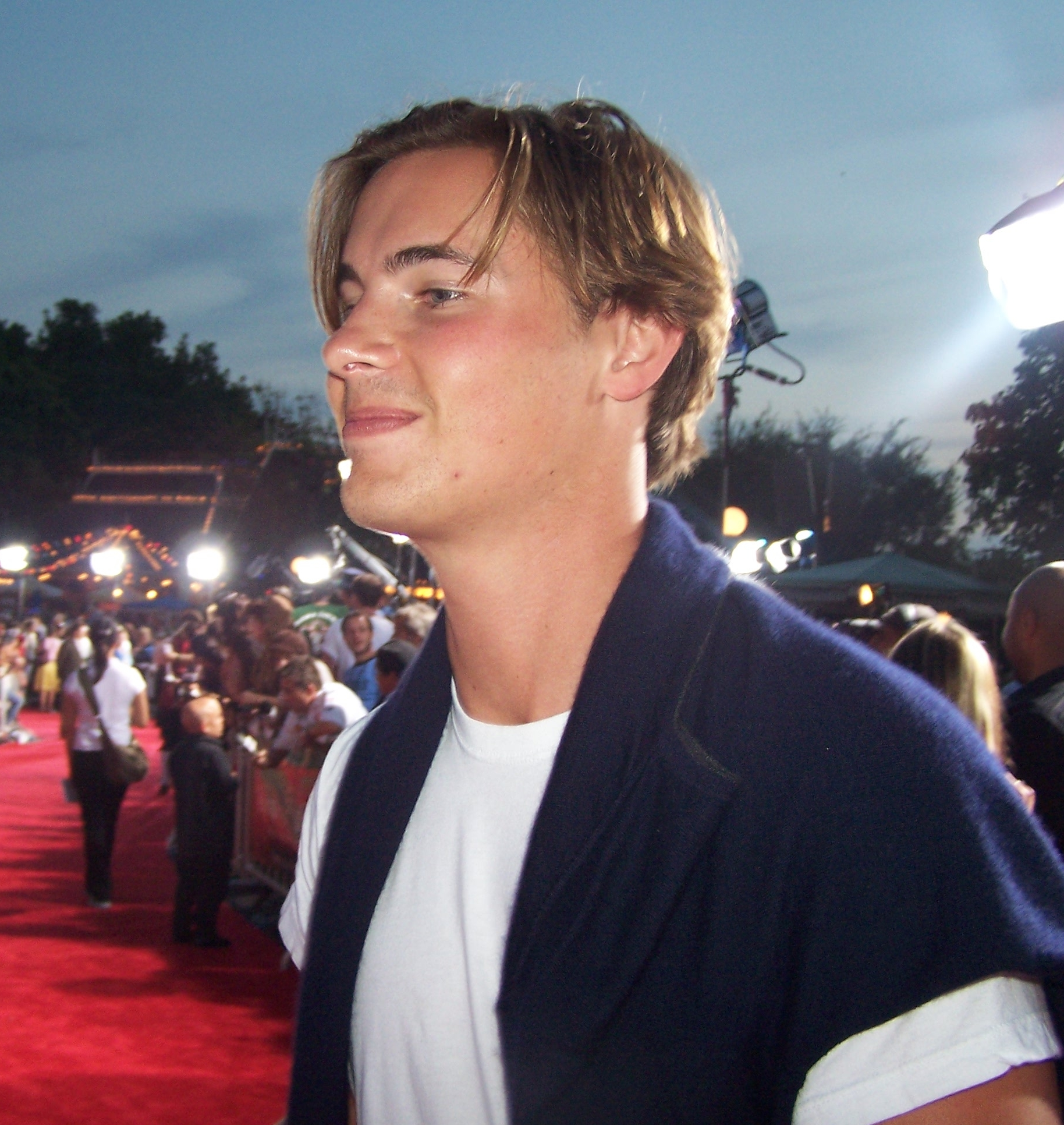 American actor Erik von Detten.